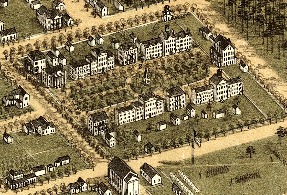 The Horseshoe, the original campus of the University of South Carolina, cropped from a bird's-eye map of Columbia, South Carolina drawn in 1872